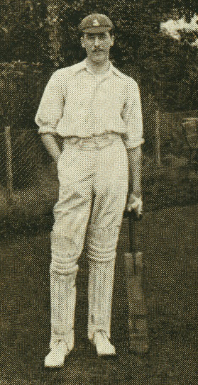 Smith's "Albion" Gold Flakes Cigarette Card of Frank Woolley, part of the 1912 Cricketers series.